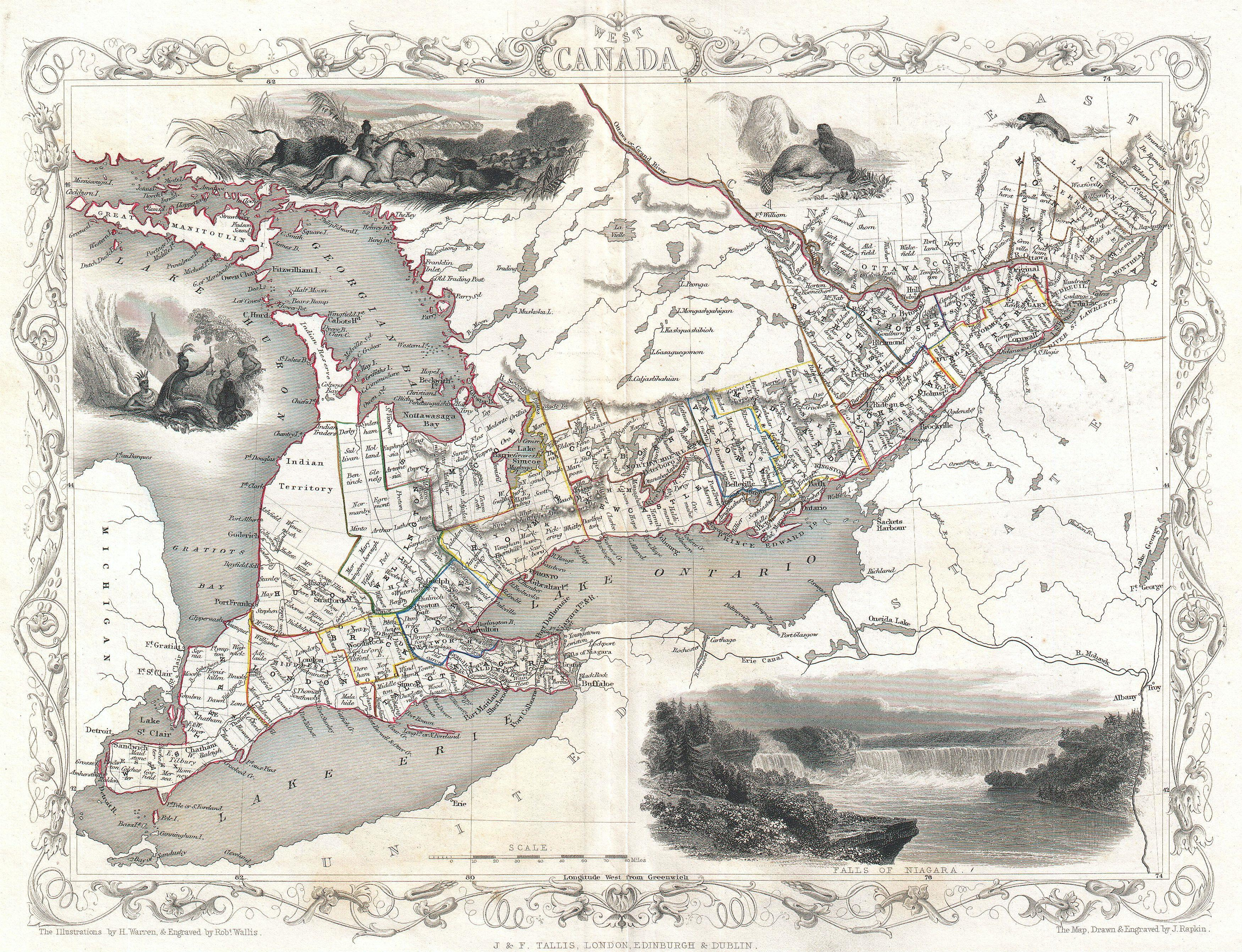 This is John Tallis’ extremely attractive c. 1850 map of West Canada or what is now Ontario. Includes Lake Erie, Lake Ontario, and part of Lake Huron with Georgian Bay. Features five stunning vignettes which include American Indians on horseback chasing buffalo across the great plains, Several American Indians sitting around a tree with a teepee in the background, two seals, an otter, and in the lower right quadrant, Niagara Falls. The whole is surrounded by a decorative vine motif border. The vignettes for this map were drawn by H. Warren and engraved by Robert Wallis. The map itself is the work of John Rapkin.